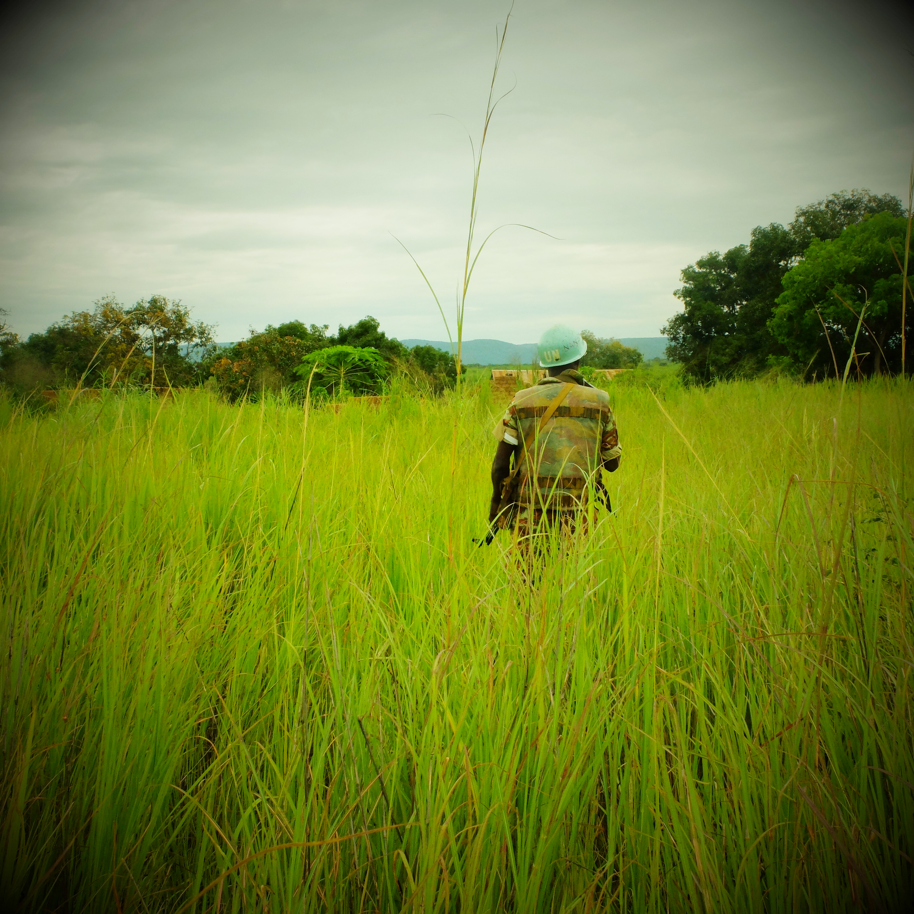 This photo, which was taken on 8 February 2014, shows a UN peacekeeper in Pueto, a town which was attacked and destroyed by a militia known as the Bakata Katanga, which in the local language means to cut the Katanga province, that is, from the rest of the country. Photo: MONUSCO/Myriam Asmani. Cette photo prise le 8 février 2014 montre un casque bleu à Pueto, une localité qui fut l’objet d’une attaque de la milice connue sous le nom de Bakata Katanga qui signifie en langue locale, couper le Katanga, entendez du reste du pays. Photo : MONUSCO/Myriam Asmani